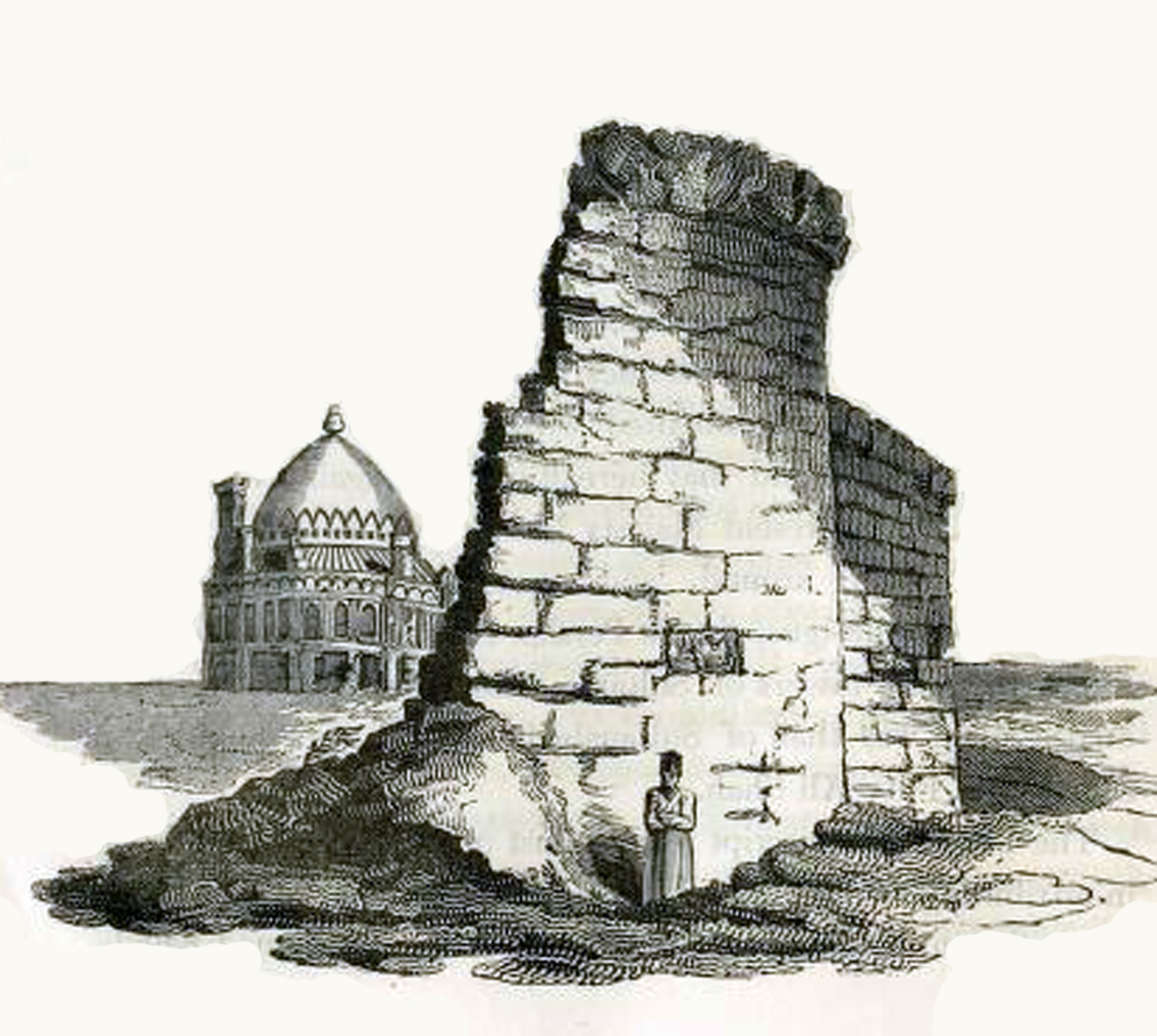 Sultania: mausoleum of Öljeitü and remains of citadel.